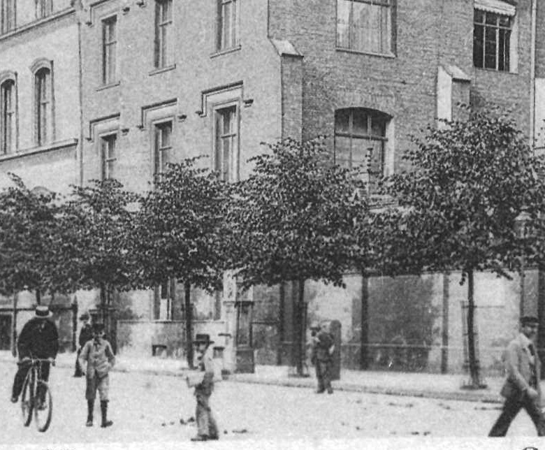 an old postcard from 1901 showing the Berlinisches Gymnasium zum Grauen Kloster in Berlin-Mitte